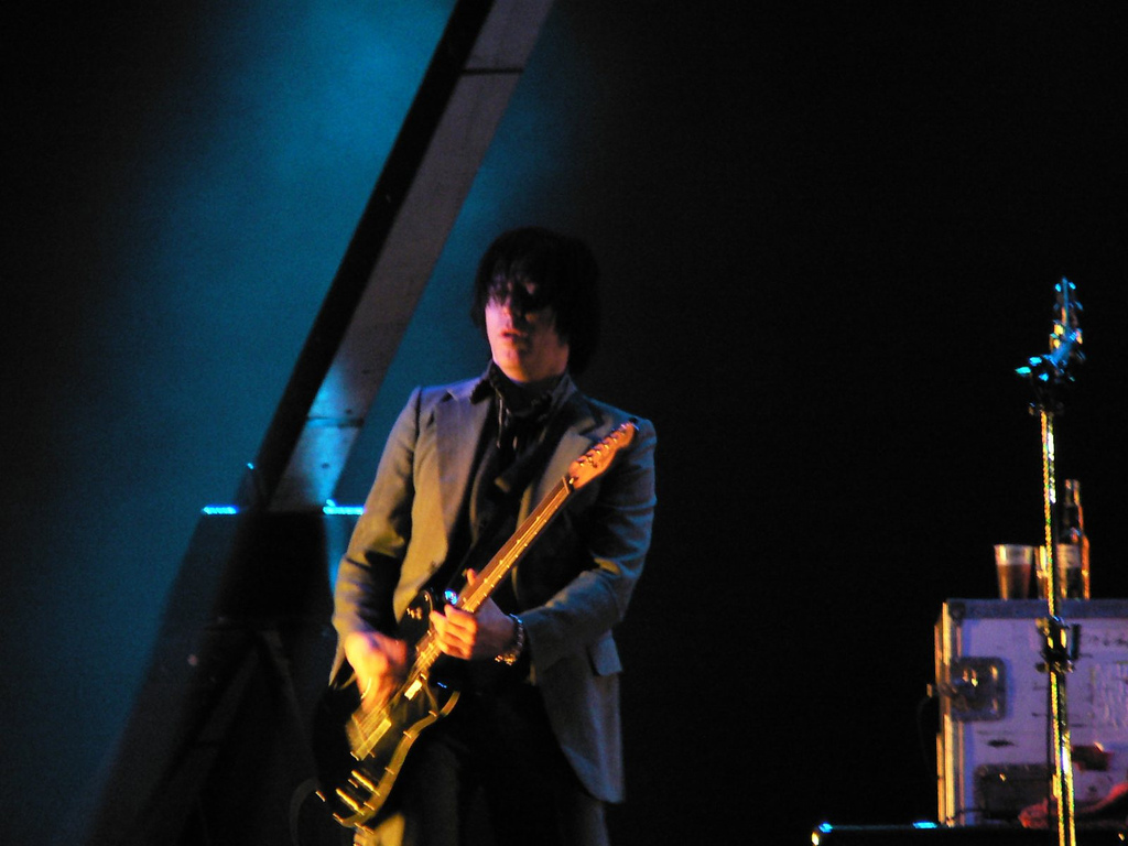 Guitarist Troy Van Leeuwen of Queens of the Stone Age shown performing with the band at the Southside Festival near Tuttlingen, southern Germany, June 24, 2007